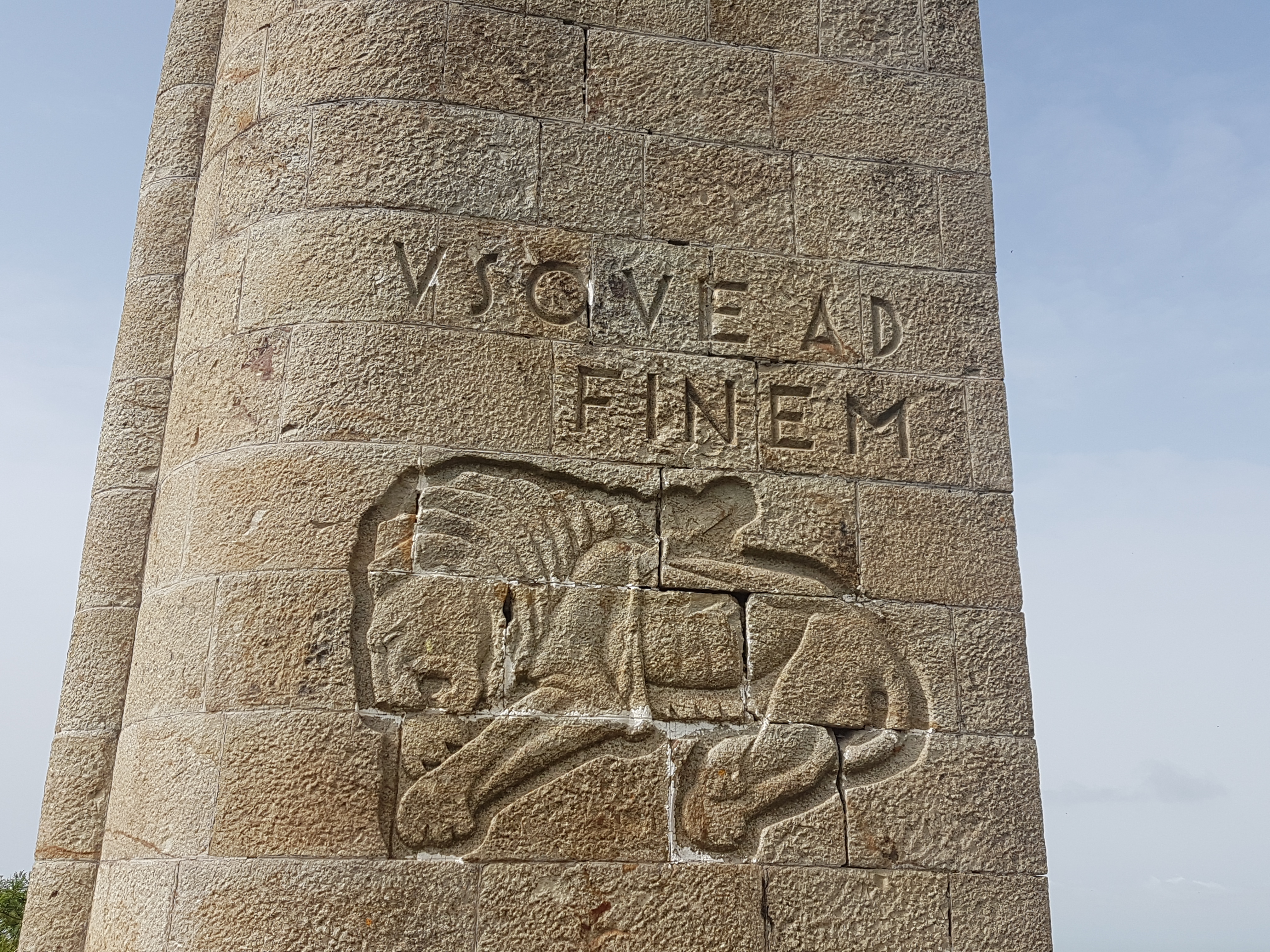 Gorgora Fascist Monument, also known as "Mussolini's Stele" - North (July 2018)